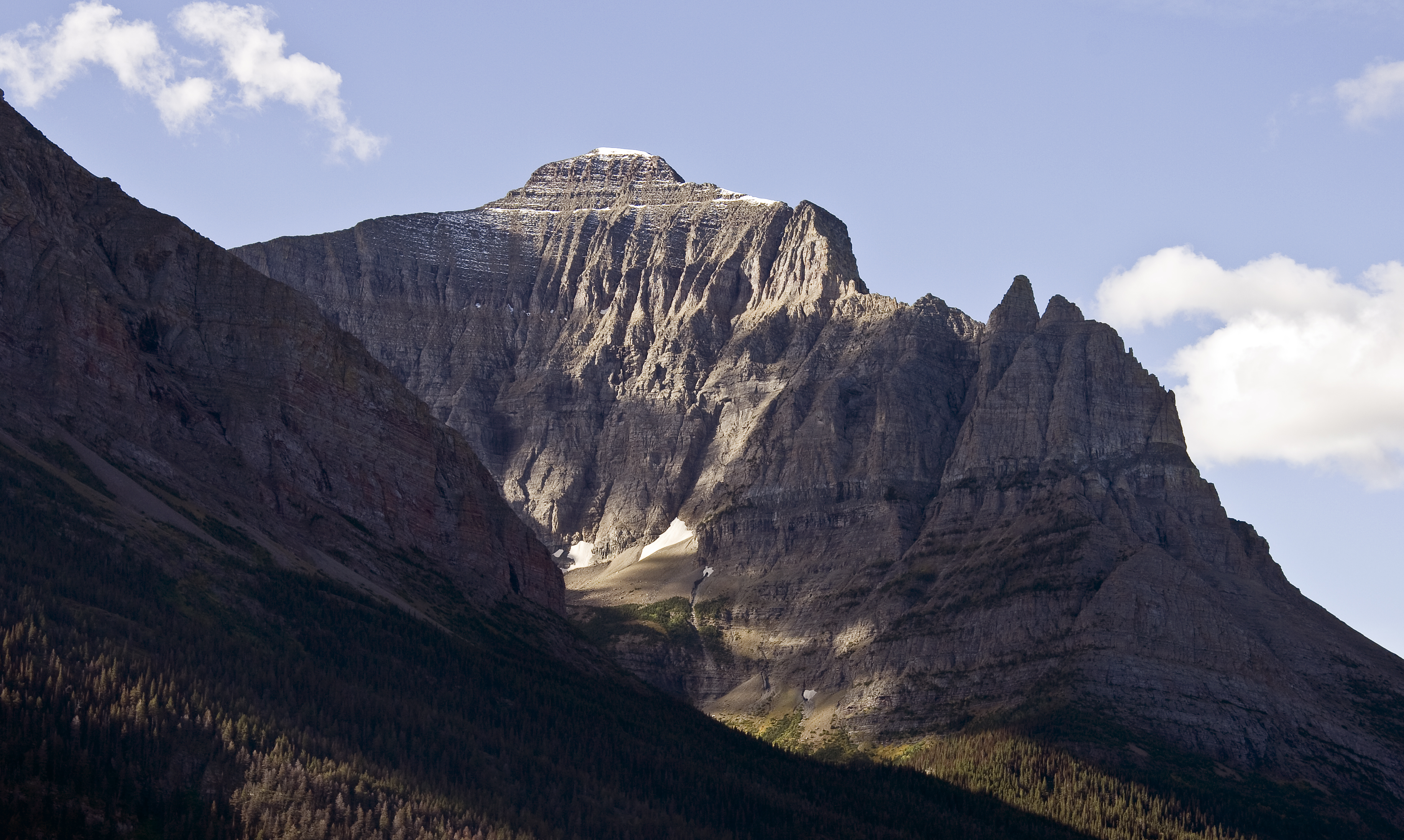 Little Chief Mountain in Glacier NP from the west side of the Going-to-the-Sun Road, looking southwest